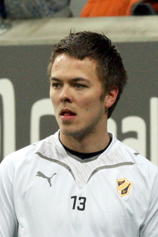 Icelandic footballer Pálmi Rafn Pálmason.